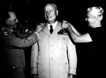 Carter B. Magruder receiving a promotion